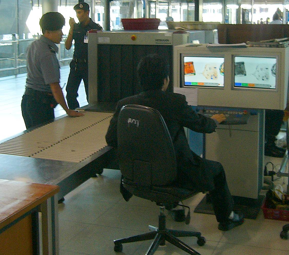 Luggage screening device at Suvarnabhumi International Airport, Bangkok, Thailand. This security post is located for entering the airport which means all people (visitors and passengers) have to pass such a control. Another control will be for boarding luggage before entering the secured area (passengers only). View towards the street. *